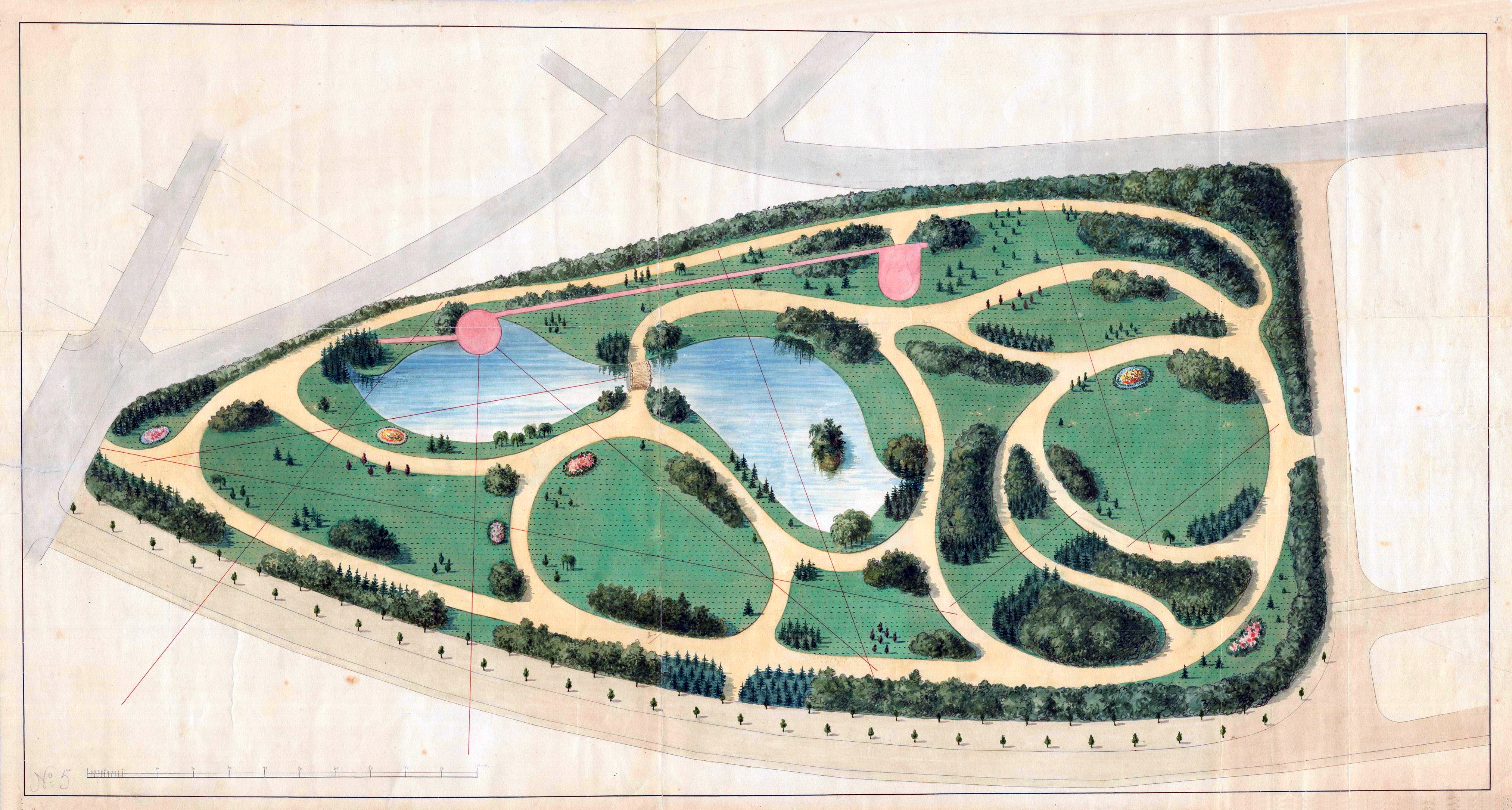 Plan of construction of the Kronenburgerpark Nijmegen 1880 Lievin Rosseels